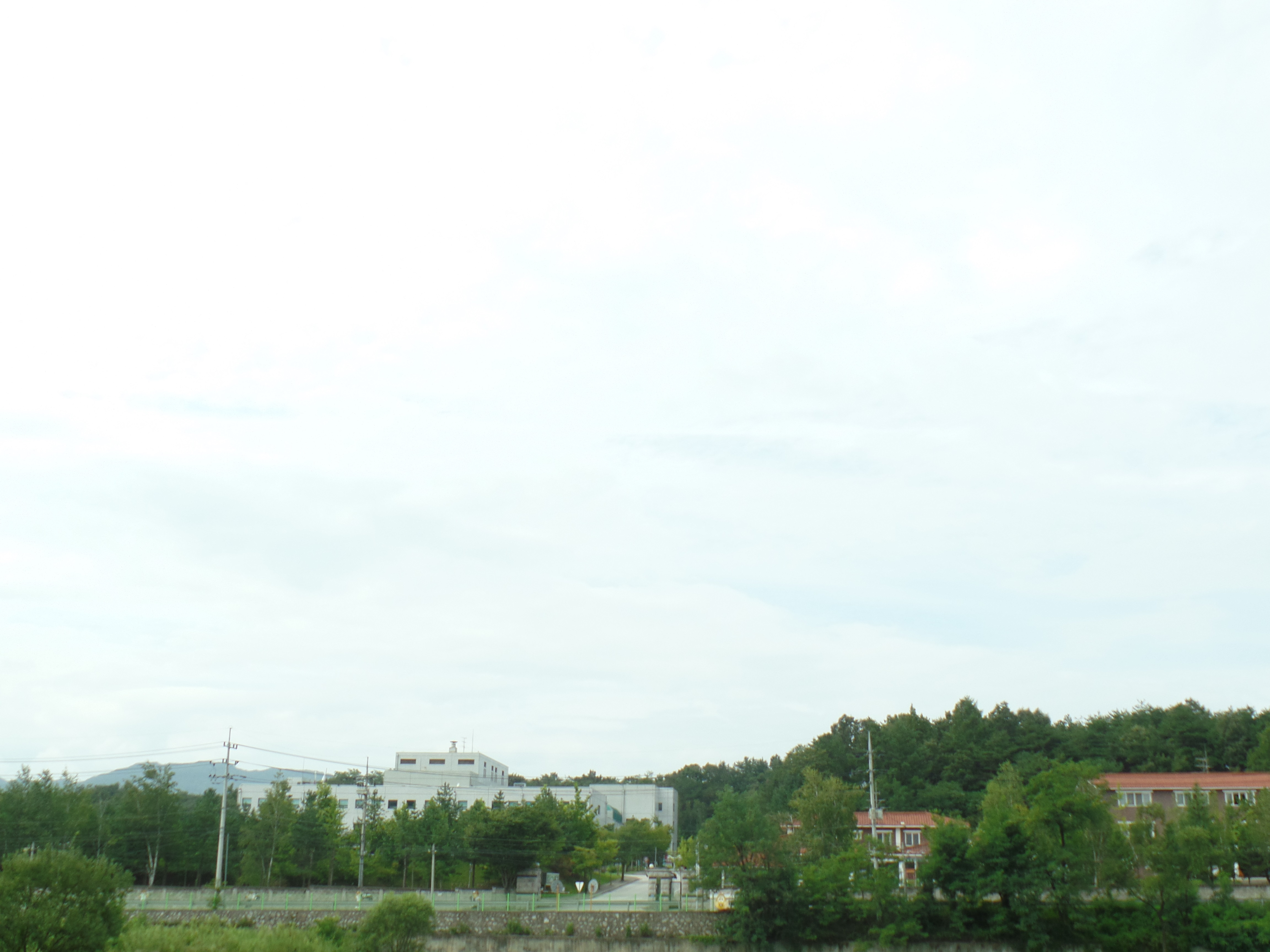 Scenery of Republic of Korea Armed Forces Chuncheon Hospital